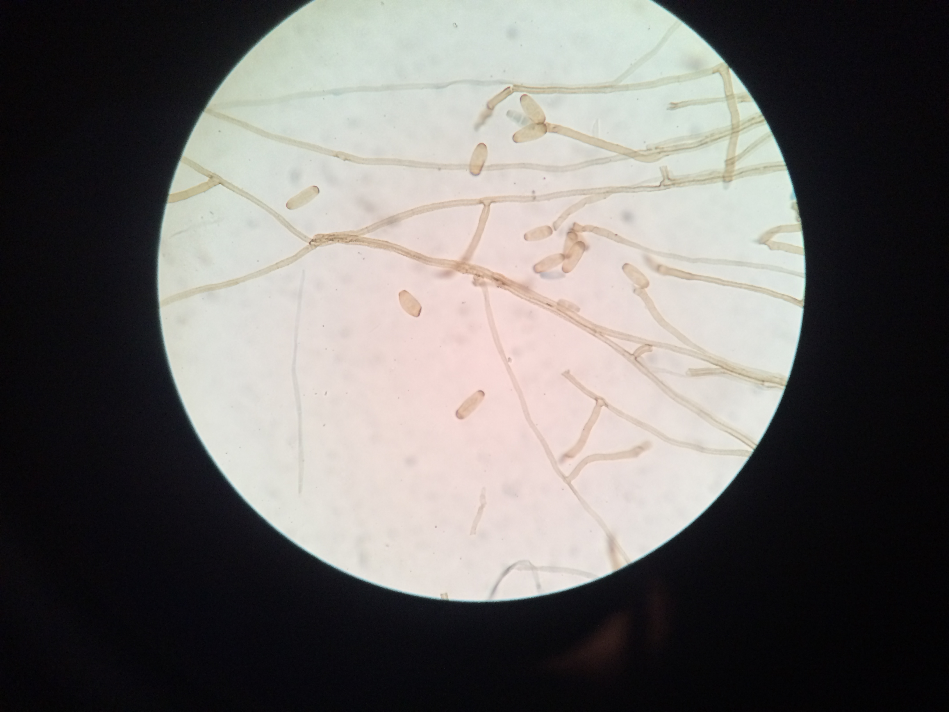 Drechslera fungi under microscope in laboratory of Islamic Azad University of Arak.